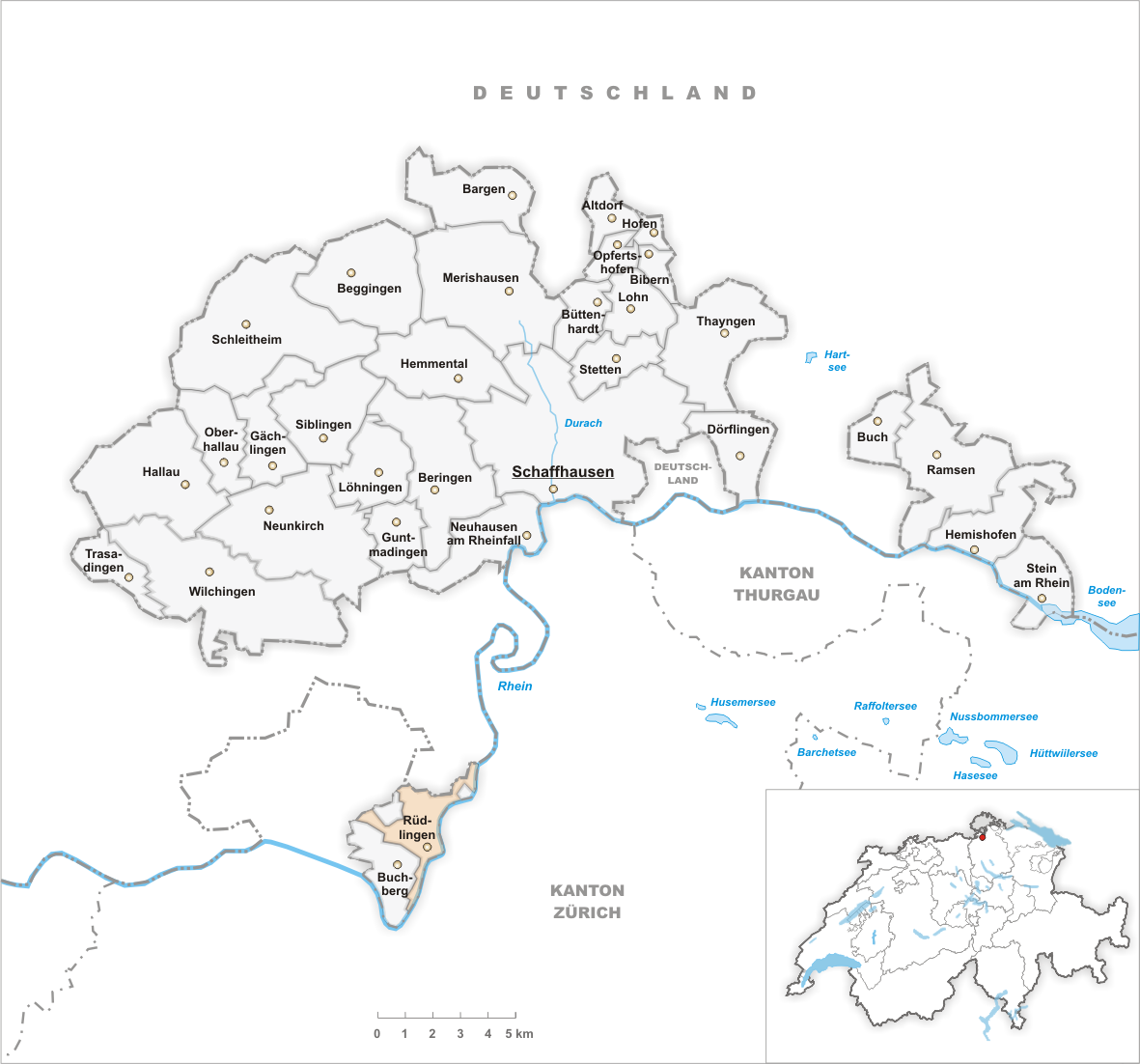 Municipality Rüdlingen